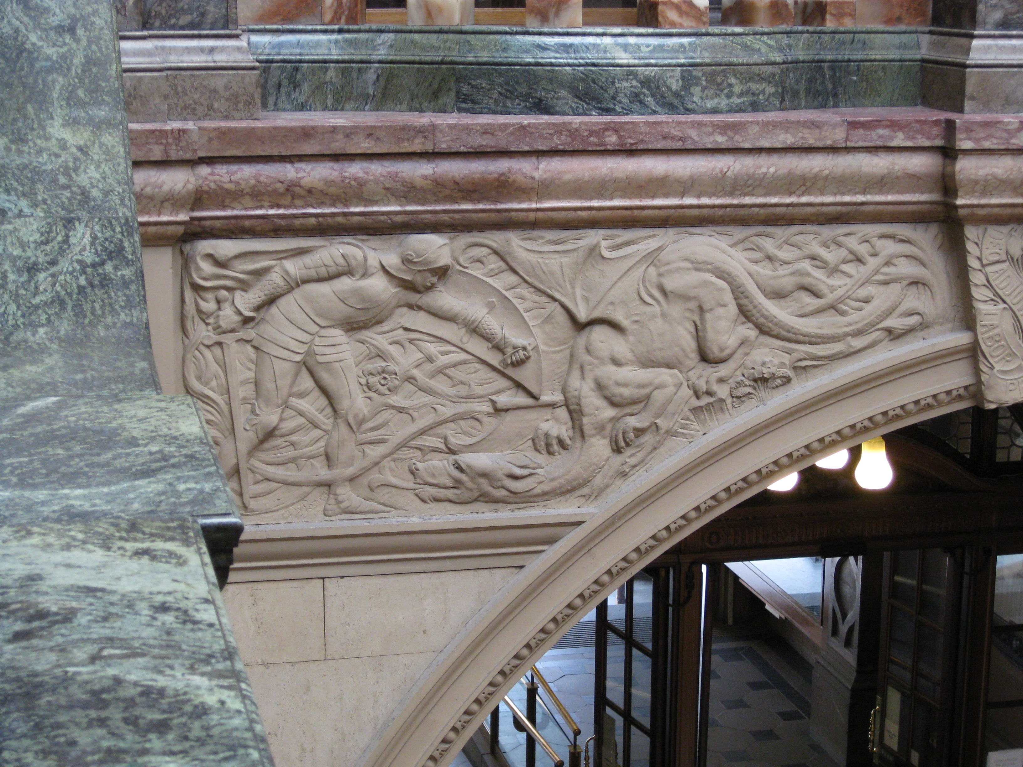 Bas-relief of the the Earl of Wharncliffe slaying a dragon. Sheffield Town Hall, 1897